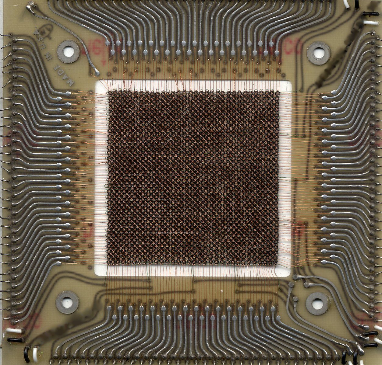 Magnetic core memory extracted from a CDC 6600 computer (1961), size of the card : 10.8cm x 10.8cm (6.5 inch), capacity : 1024 bits.